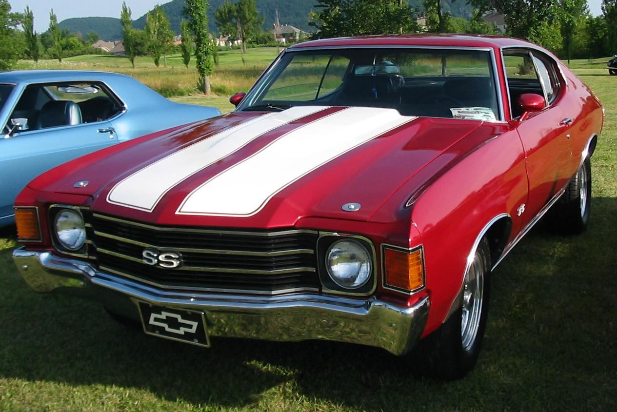 1972 Chevrolet Chevelle SS photographed in Mont St. Hilaire, Quebec, Canada at the Auto classique VAQ Mont St-Hilaire.